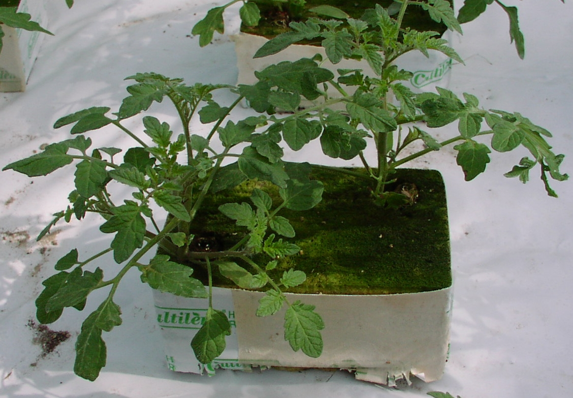 Tomatoe young plants multiple heads caused by freesing